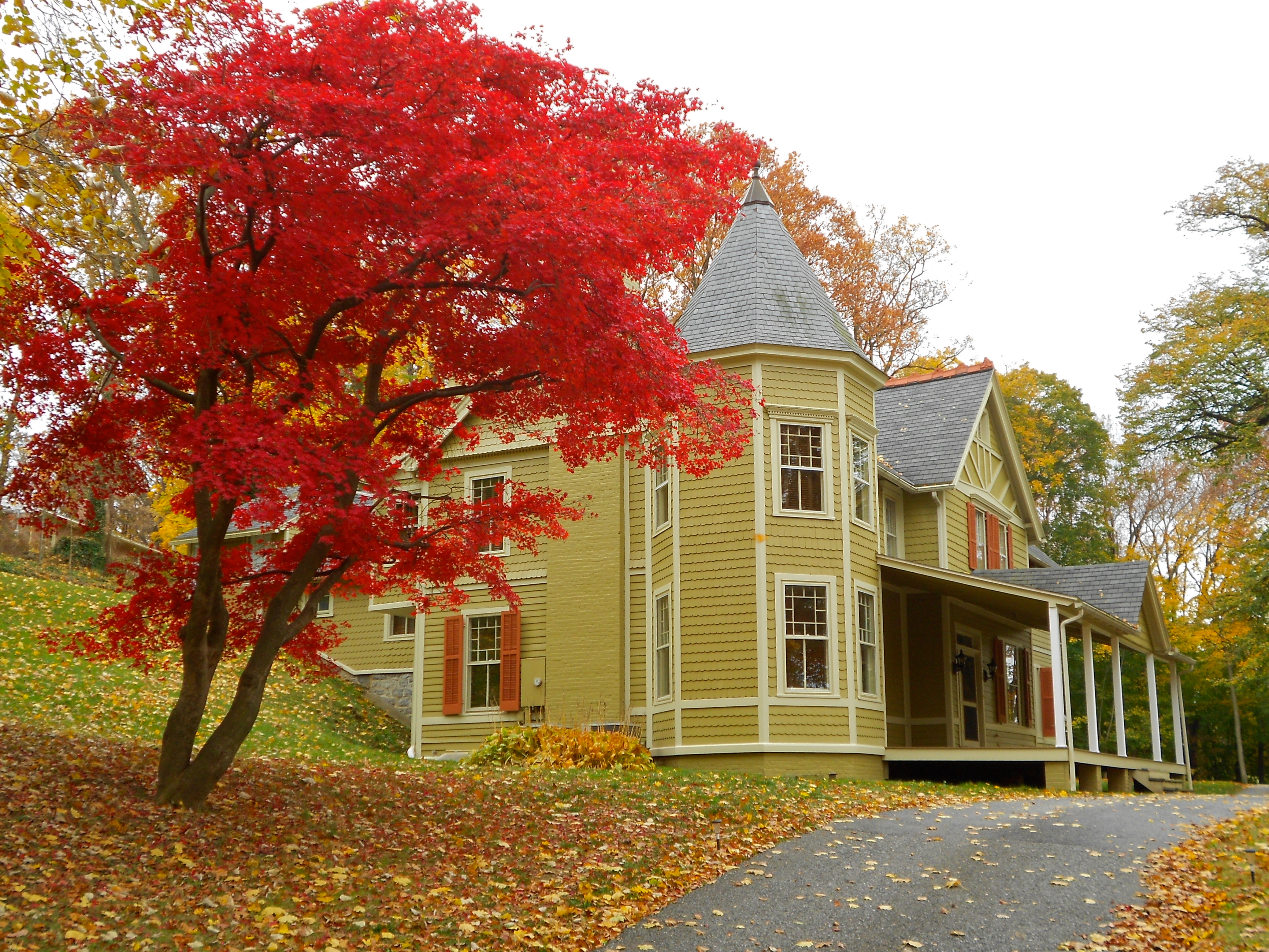 The Nook listed on the NRHP on March 1, 1982. At 1101 Farquhar Drive, south of York, in Spring Garden Township, York County, Pennsylvania. Go up the steep hill and the house is at the hairpin turn.